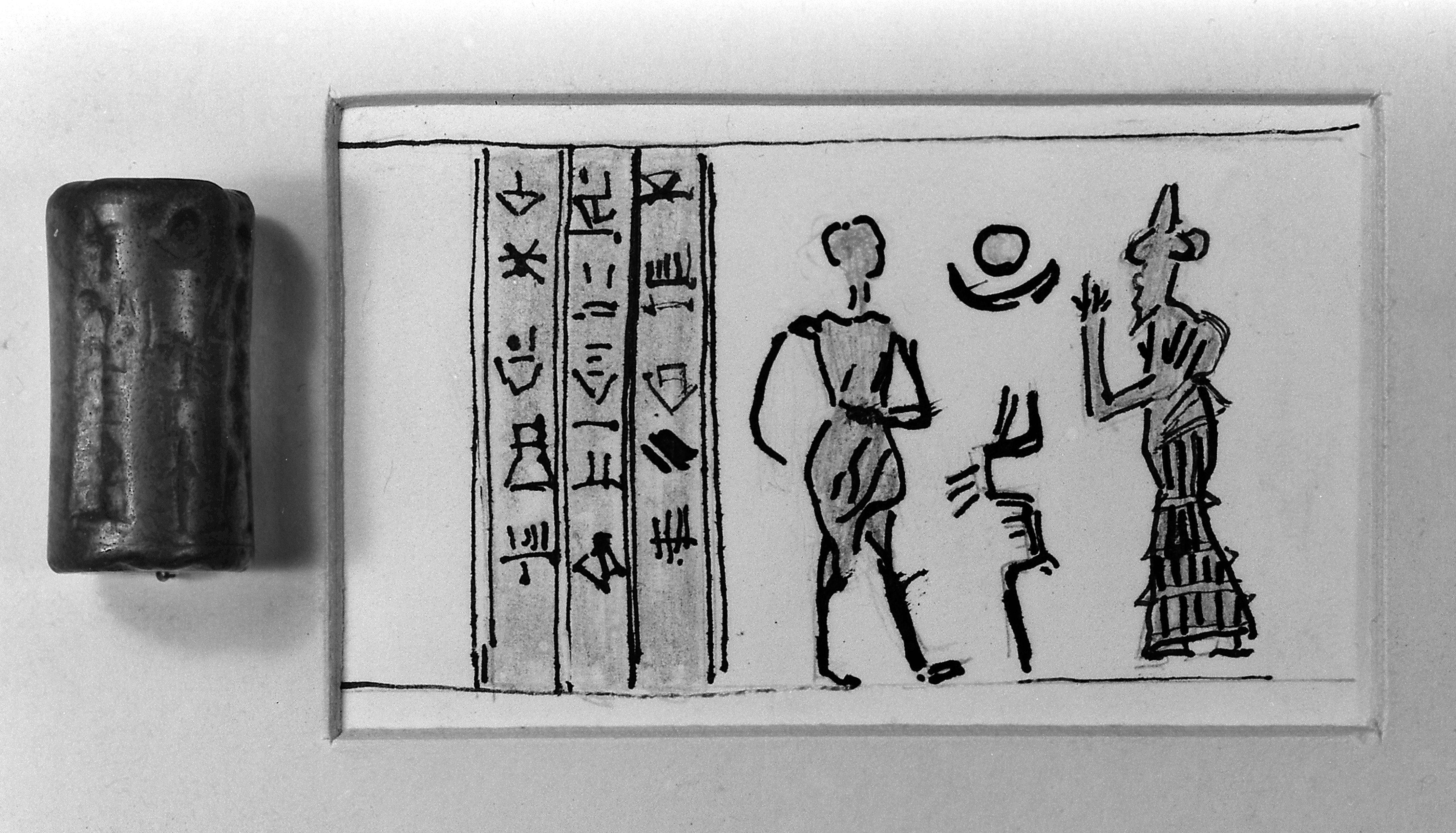 Cylinder seal and sketch of impression depicting Nergal, god of plague and the netherworld. The crooked stick is his symbol. Wellcome Images Keywords: babylon; ancient medicine